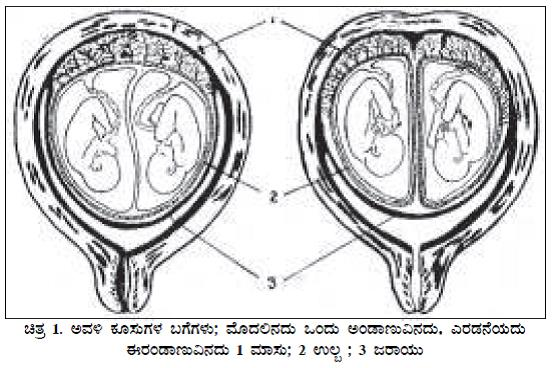 picture showing the types of twin eggs